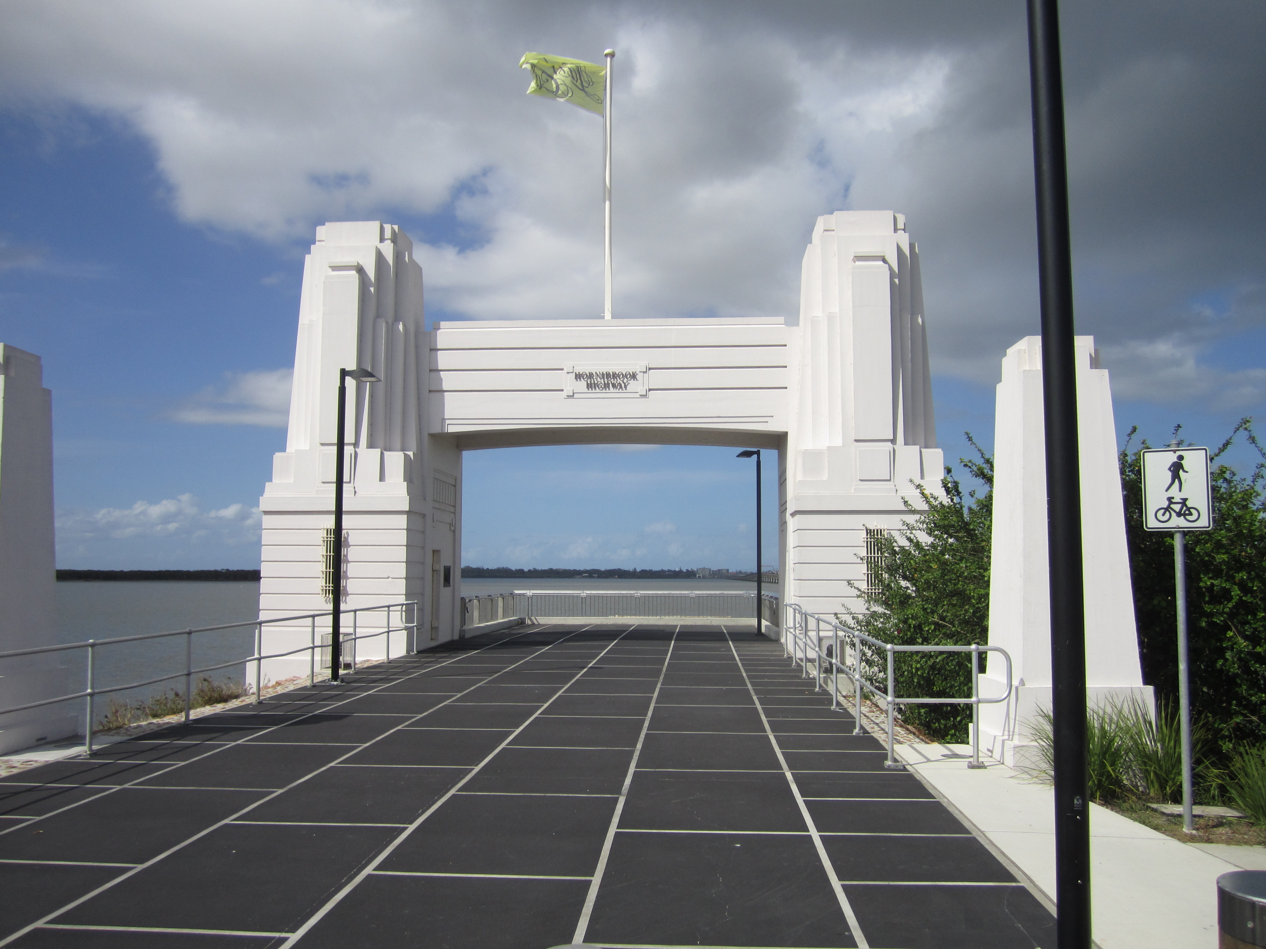 Southern portal of the former Hornibrook Highway Bridge. At one point, this was a tollgate for cars crossing the bridge. The portals for the bridge are listed on the Queensland Heritage Register.